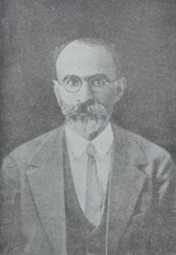 Abolhassan Foroughi - 1930s